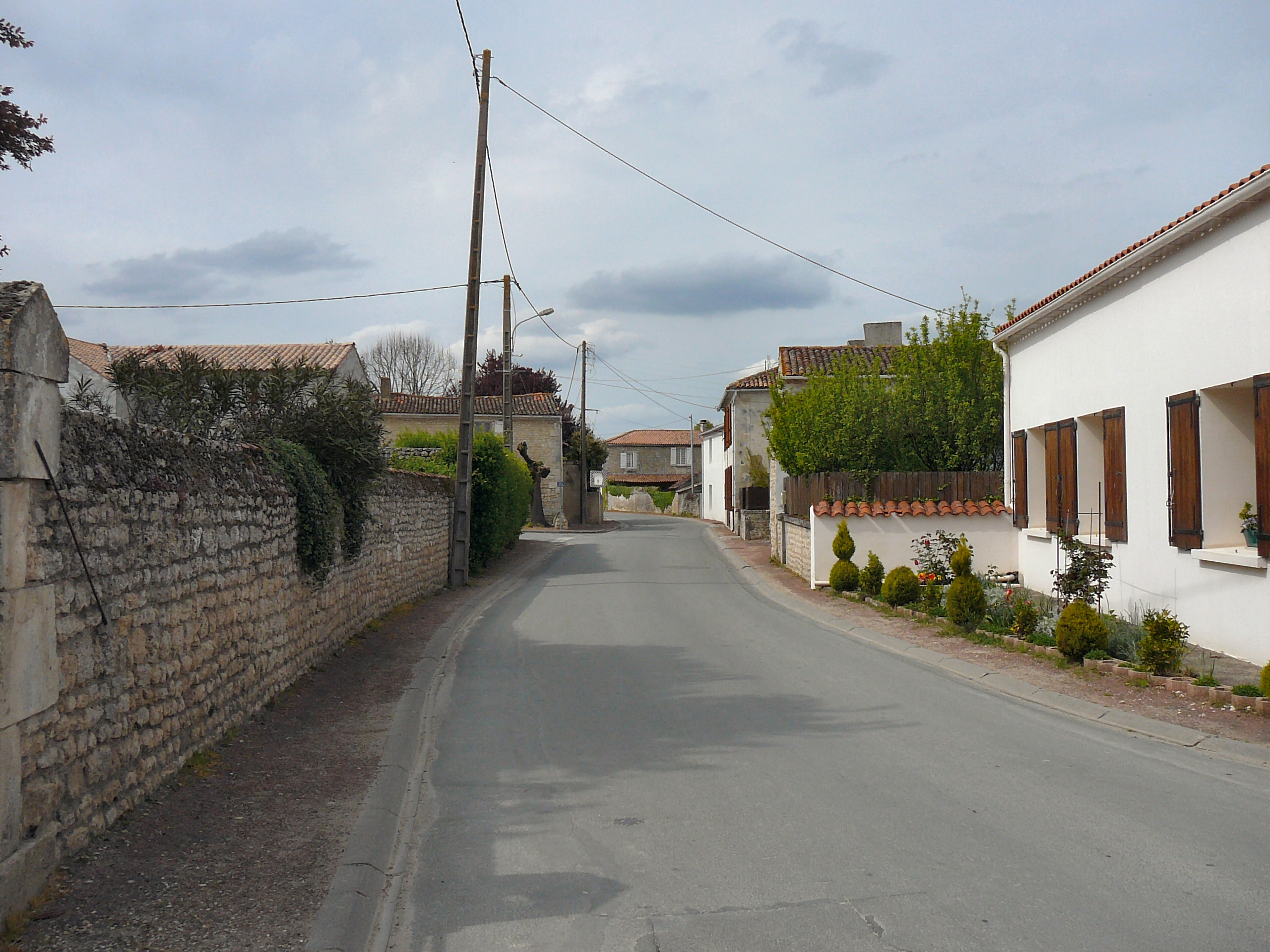 Street in Nieulle-sur_Seudre. March 2009. Charente-Maritime (17), Poitou-Charentes, France, Europe.